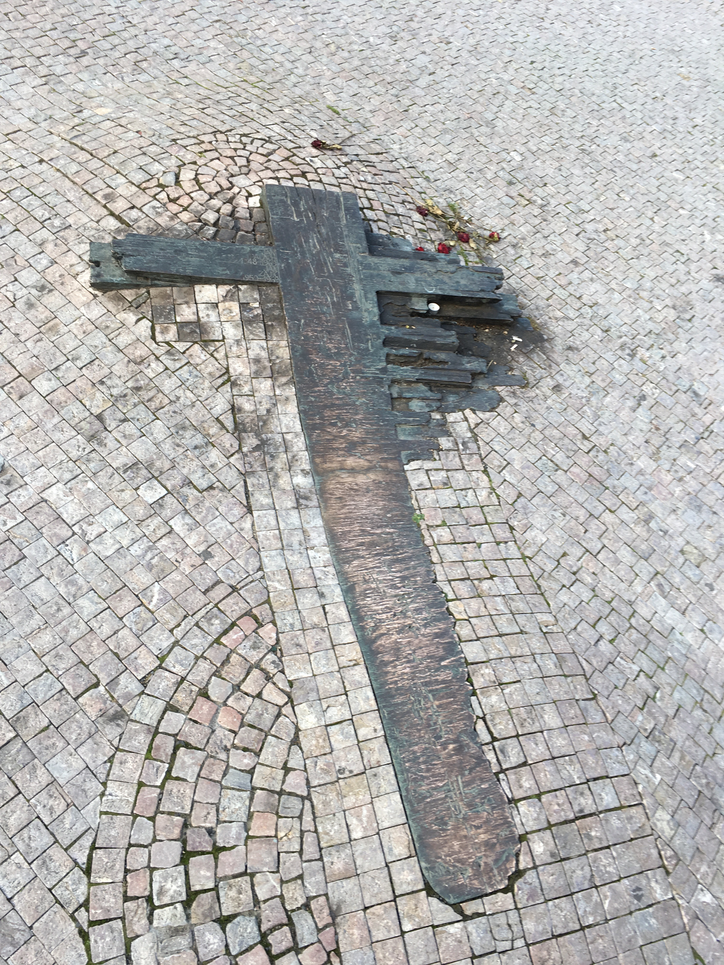 The cross commemorating the place where Palach lit himself as an act of protest